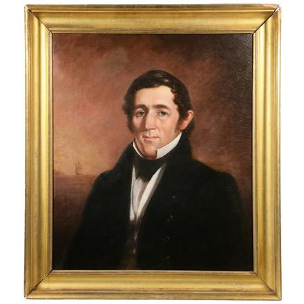 Portrait of Captain Samuel Bunker of Siasconset, Nantucket, oil on canvas, unsigned, circa 1845, with ship on horizon. Typed and signed note verso reads "Portrait of Captain Samuel Bunker, my great grandfather of Nantucket, Mass. Captain of Nantucket Shoals Lightship until it broke loose in a blizzard and drifted to the shore of Long Island. First Keeper of Sankaty Light on Nantucket Island and was commissioned by the government to select the lens from Paris.